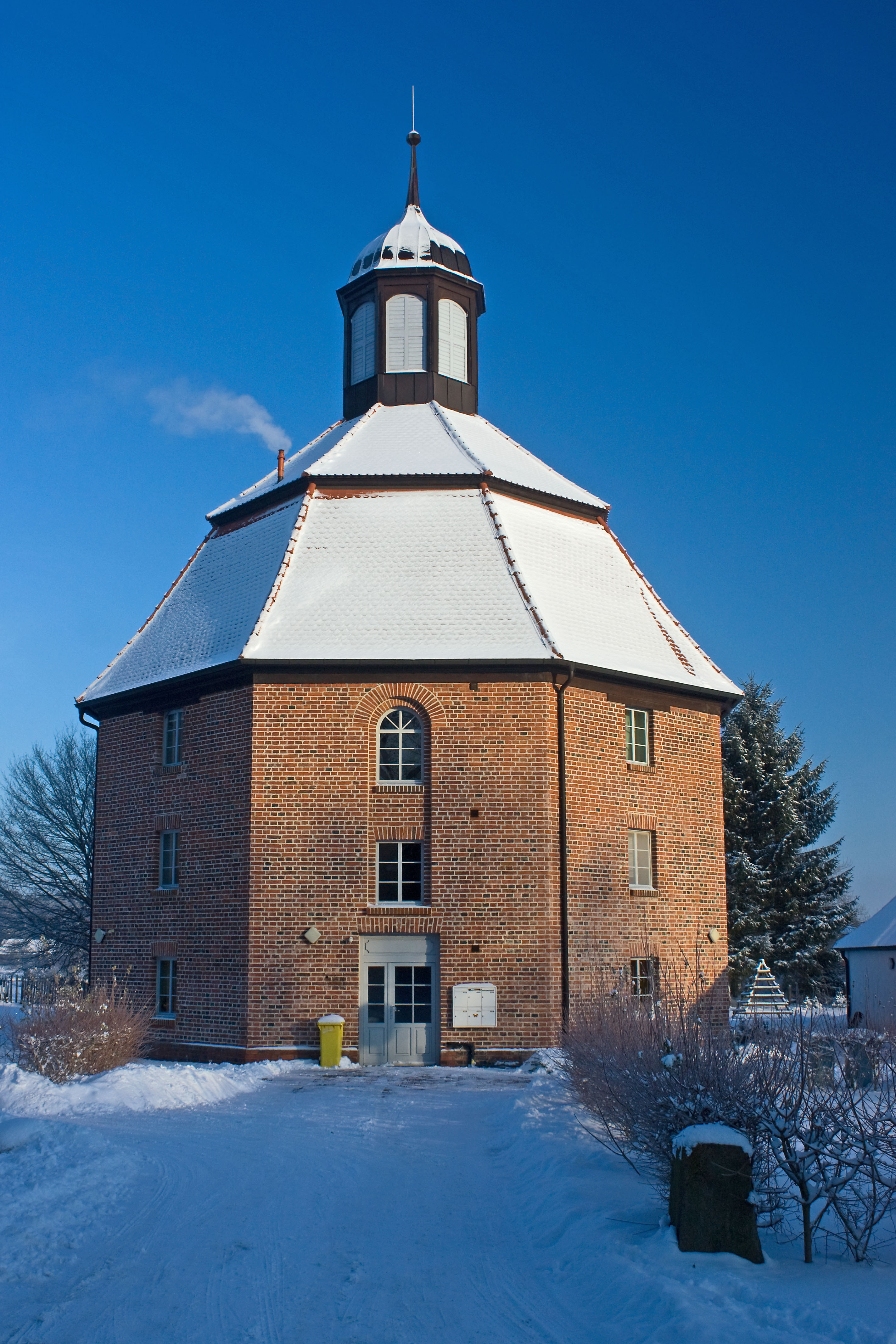 Former Lutheran church